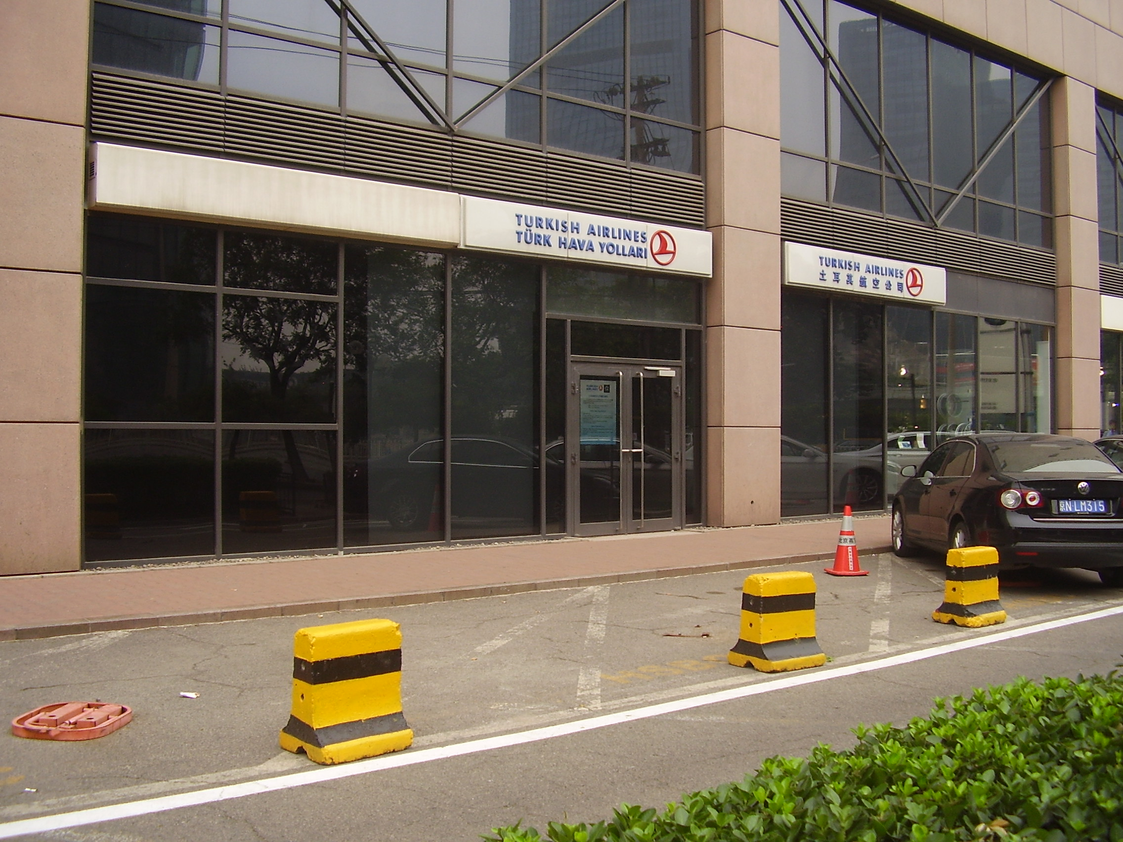 Former Turkish Airlines office in Beijing - W103, Beijing Lufthansa Center, 50 Liangmaqiao Lu, Chaoyang District, Beijing